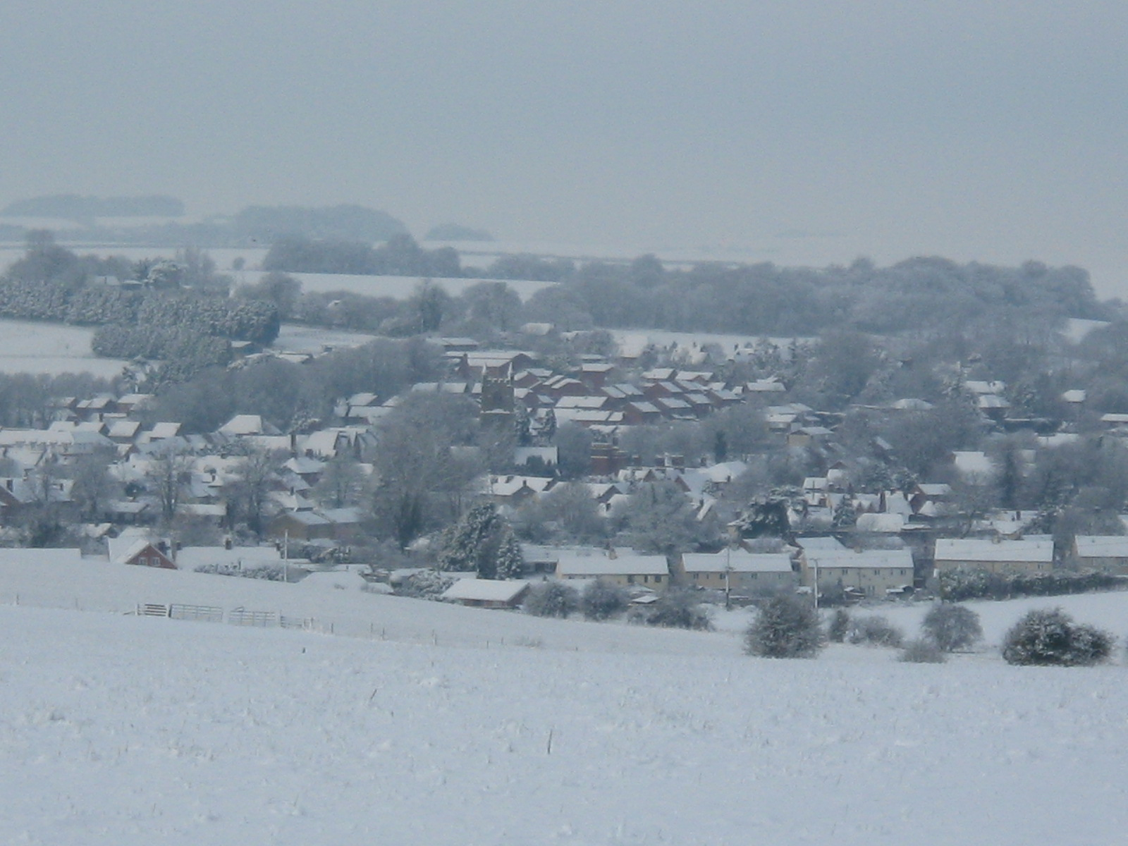 Lambourn, Berkshire covered by snow